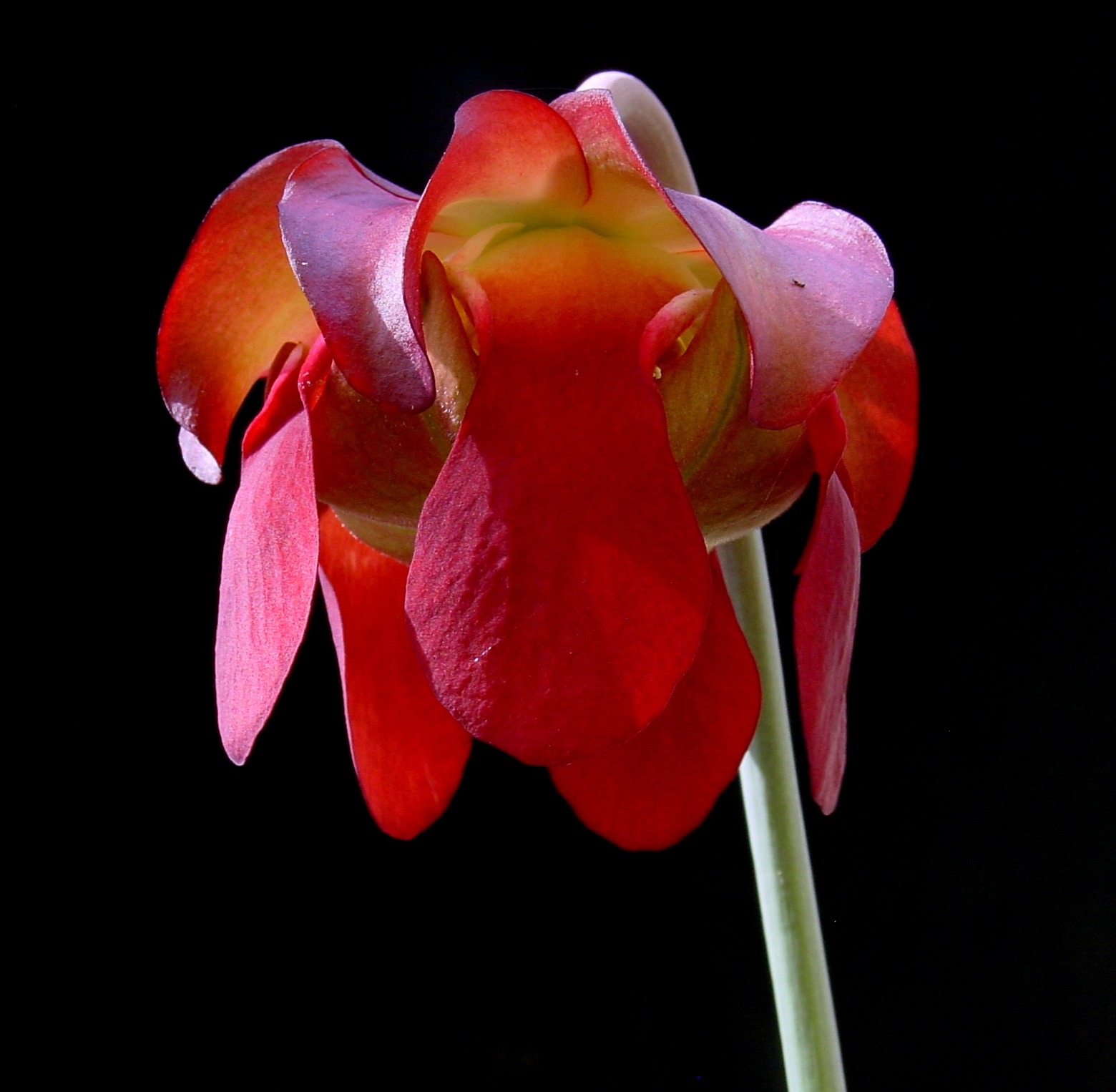 Description: Sarracenia leucophylla Photo taken by: Noah Elhardt (own work)